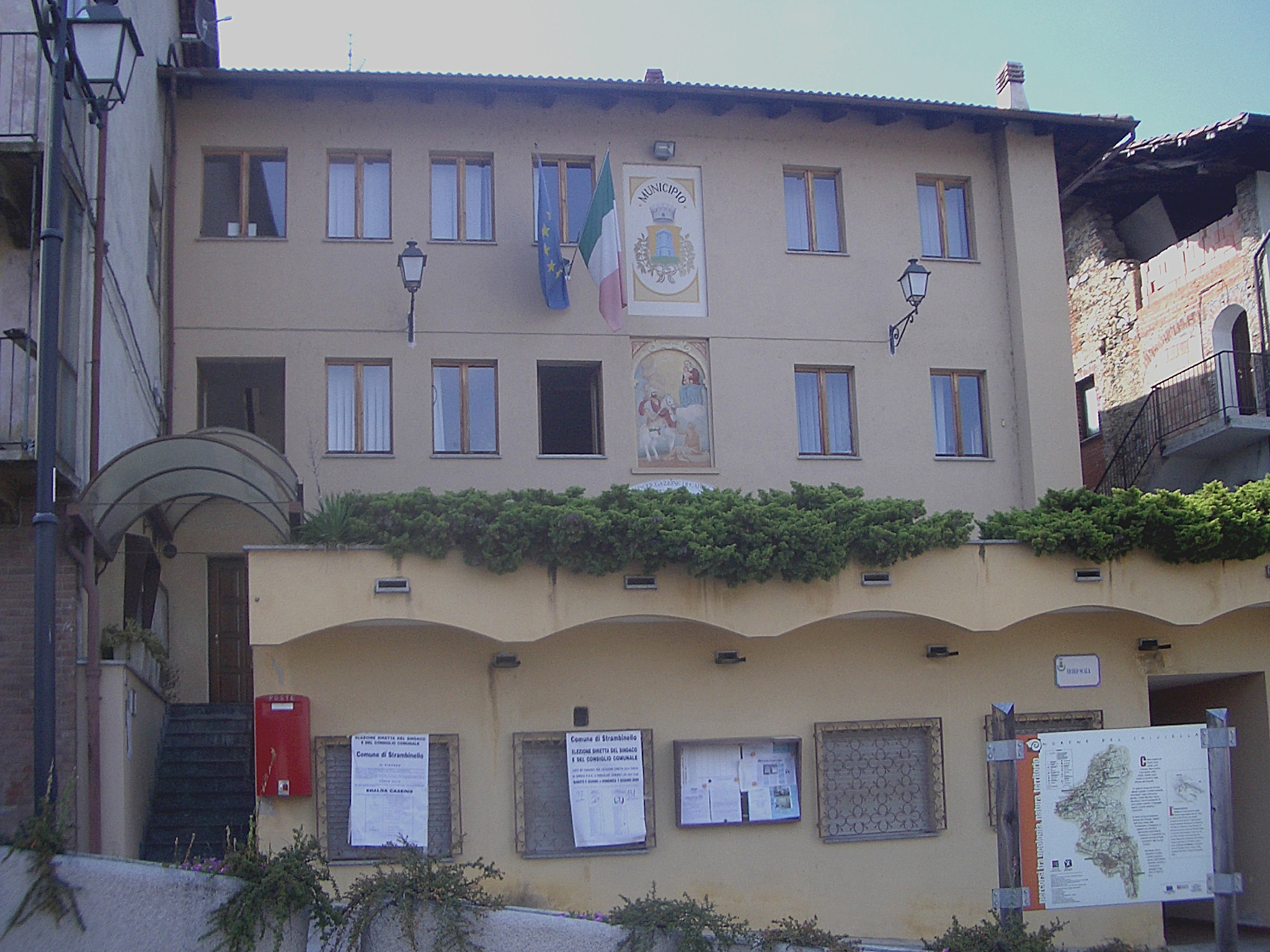 Strambinello, the Town Hall